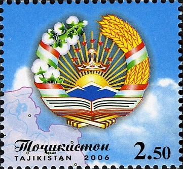 Stamps of Tajikistan